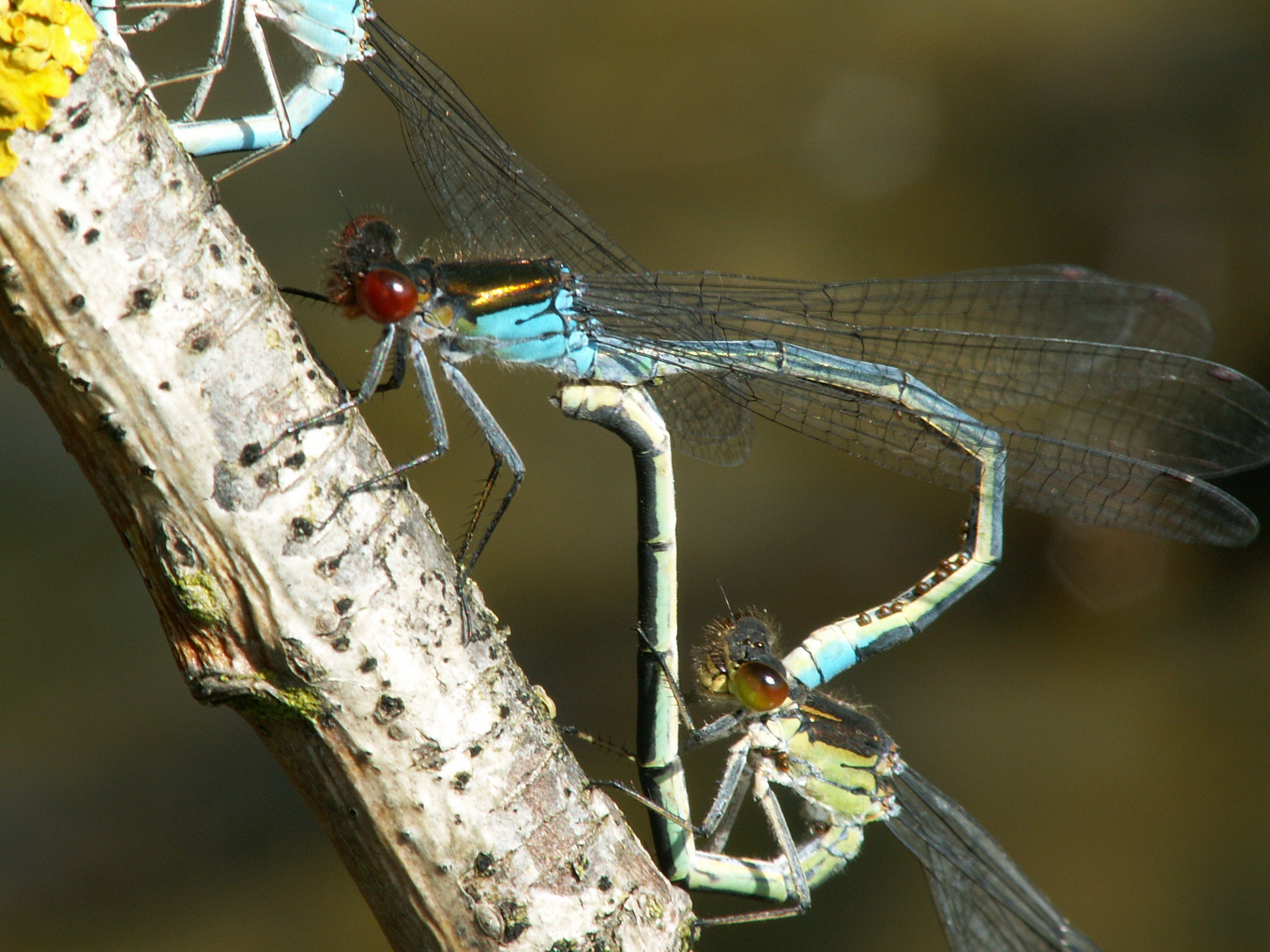 Erythromma najas pair from Rhenen Netherlands. The small balls on the upper specimen's abdomen are parasitic mites.